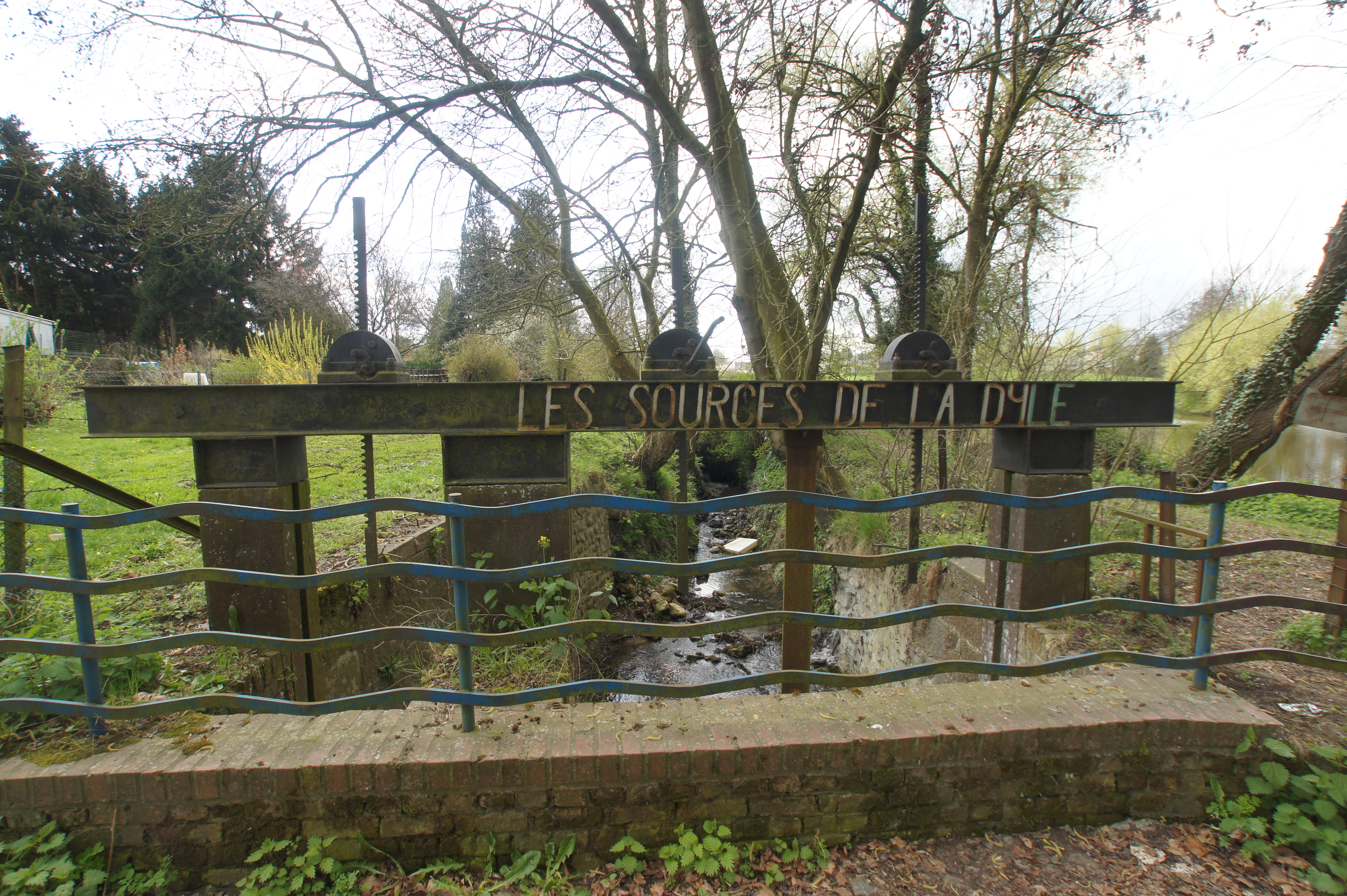 Houtain-le-Val, Belgium: Dijle Spring